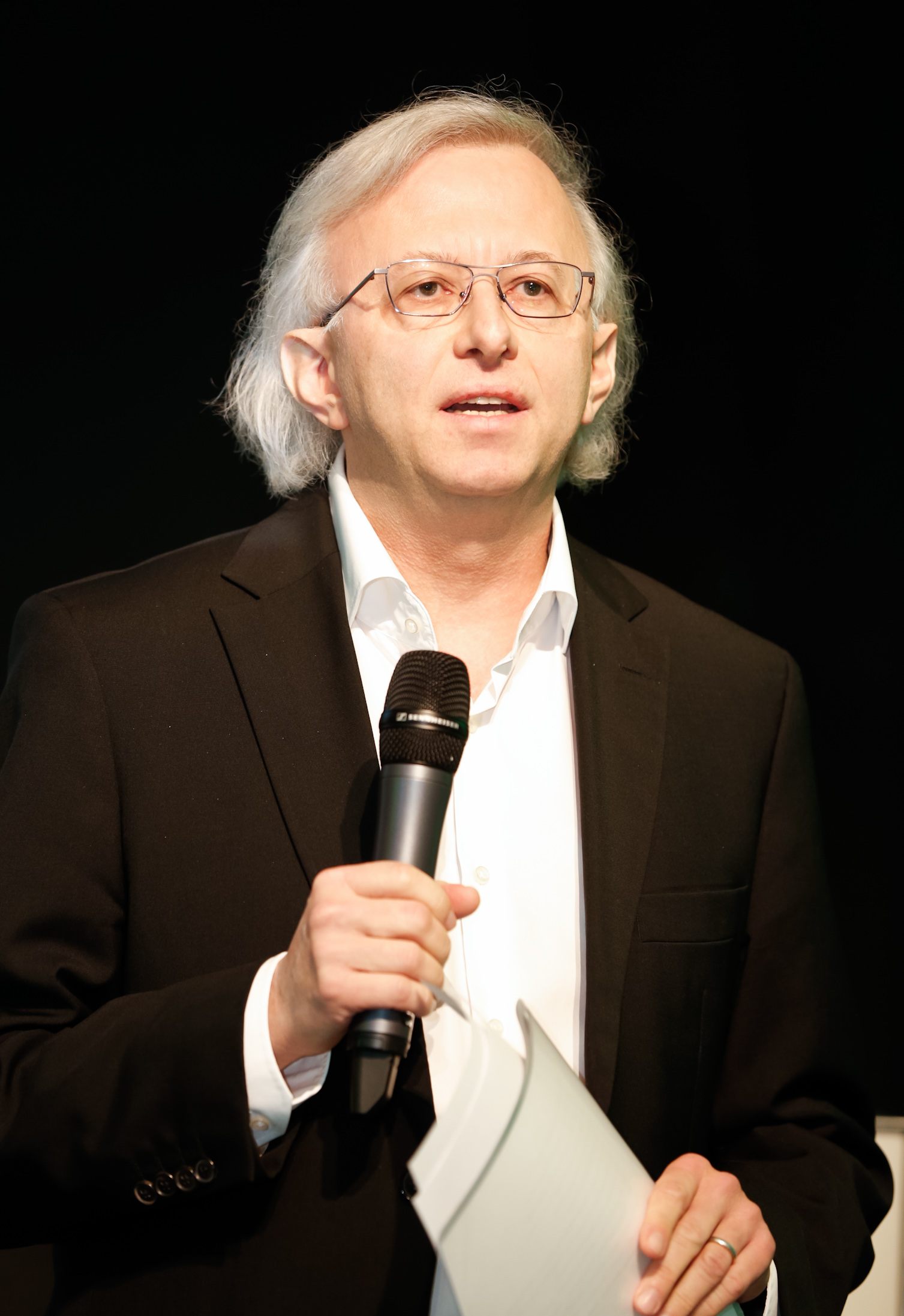 Christian Mikunda, founder of Strategic Dramaturgy at TV day of Working Group TELETEST (AGTT) that took place on October 30 2013. The event was held in Vienna / Austria / EU